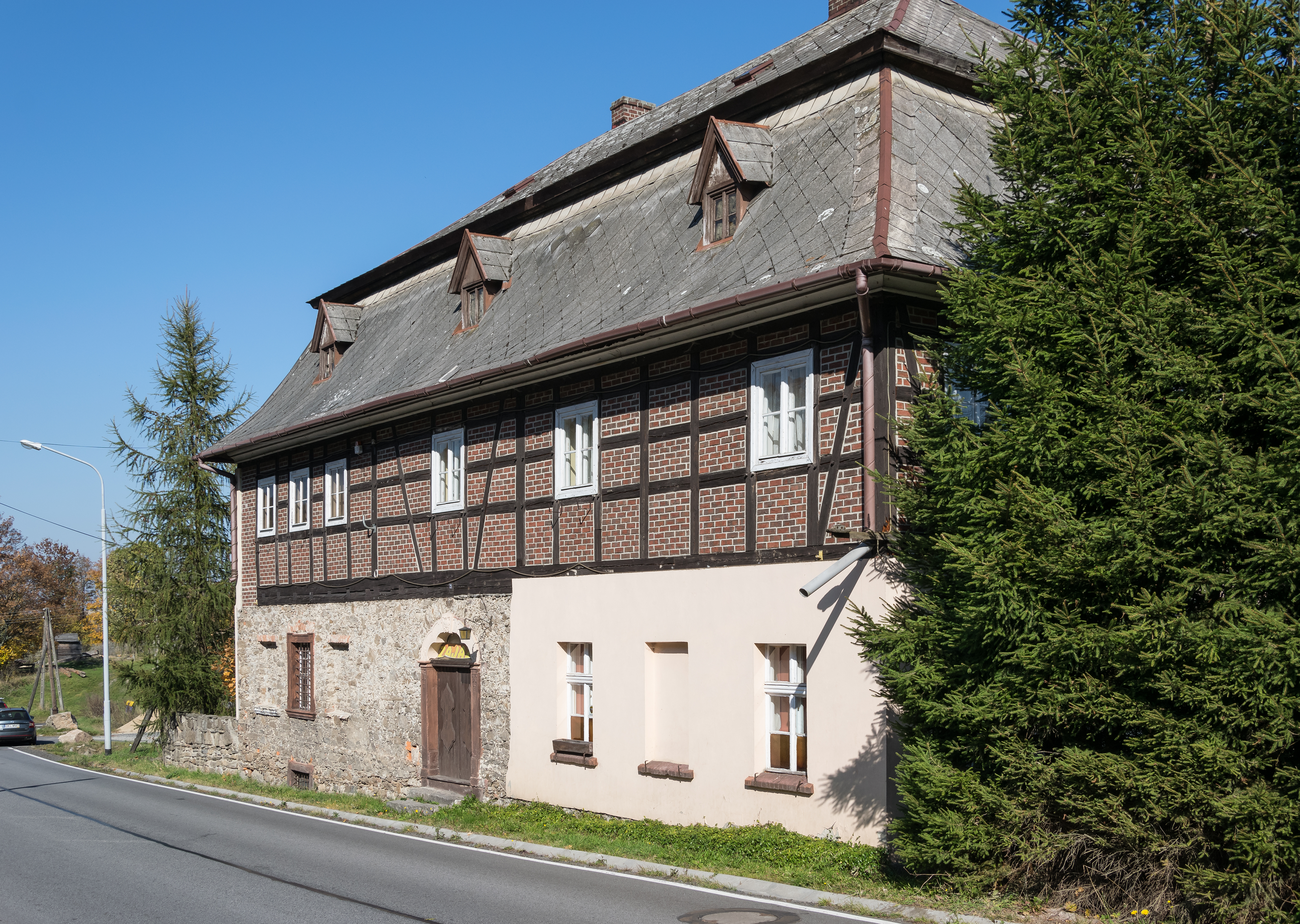 Pod Kukułką inn in Rzeczka